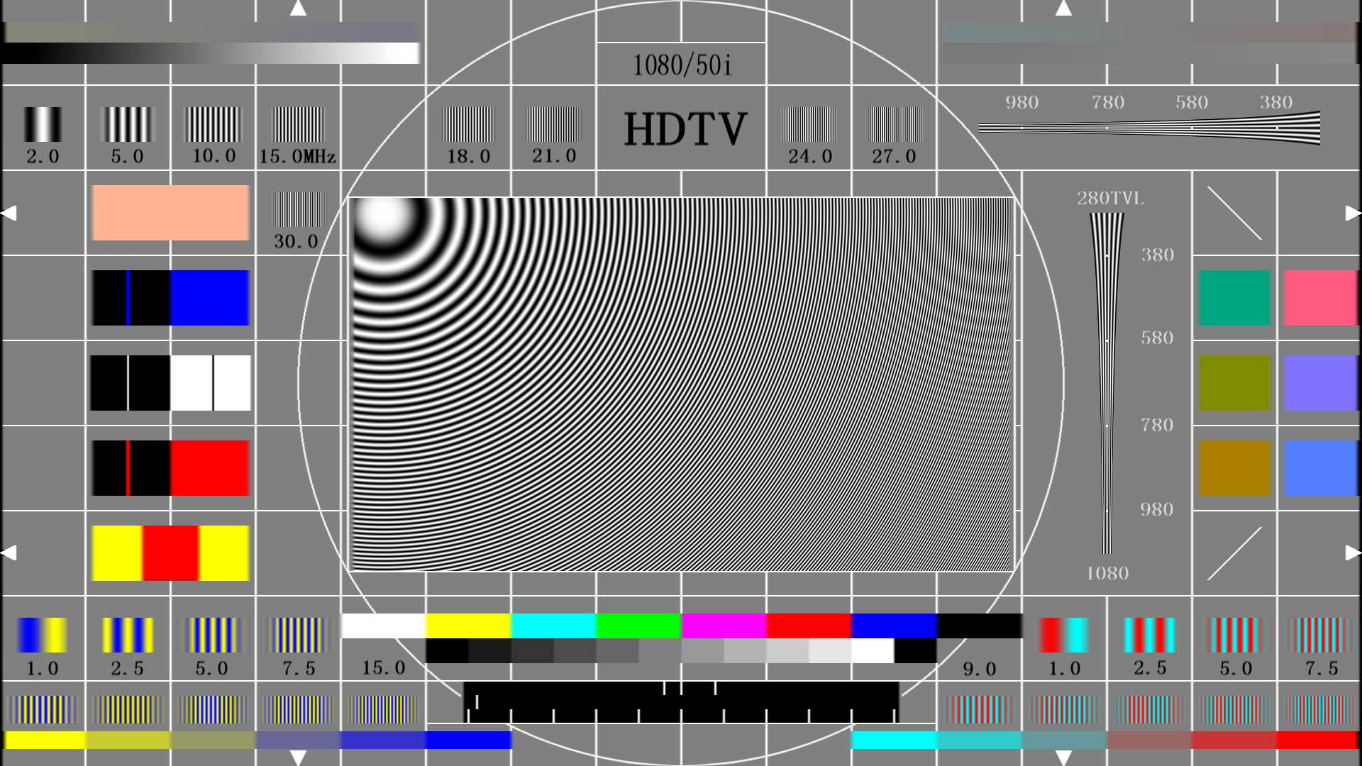 Test pattern for high definition television in China.